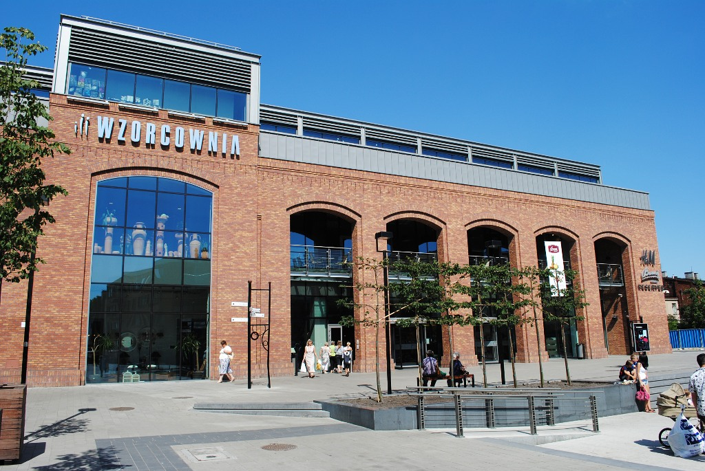 Building A of Wzorcownia